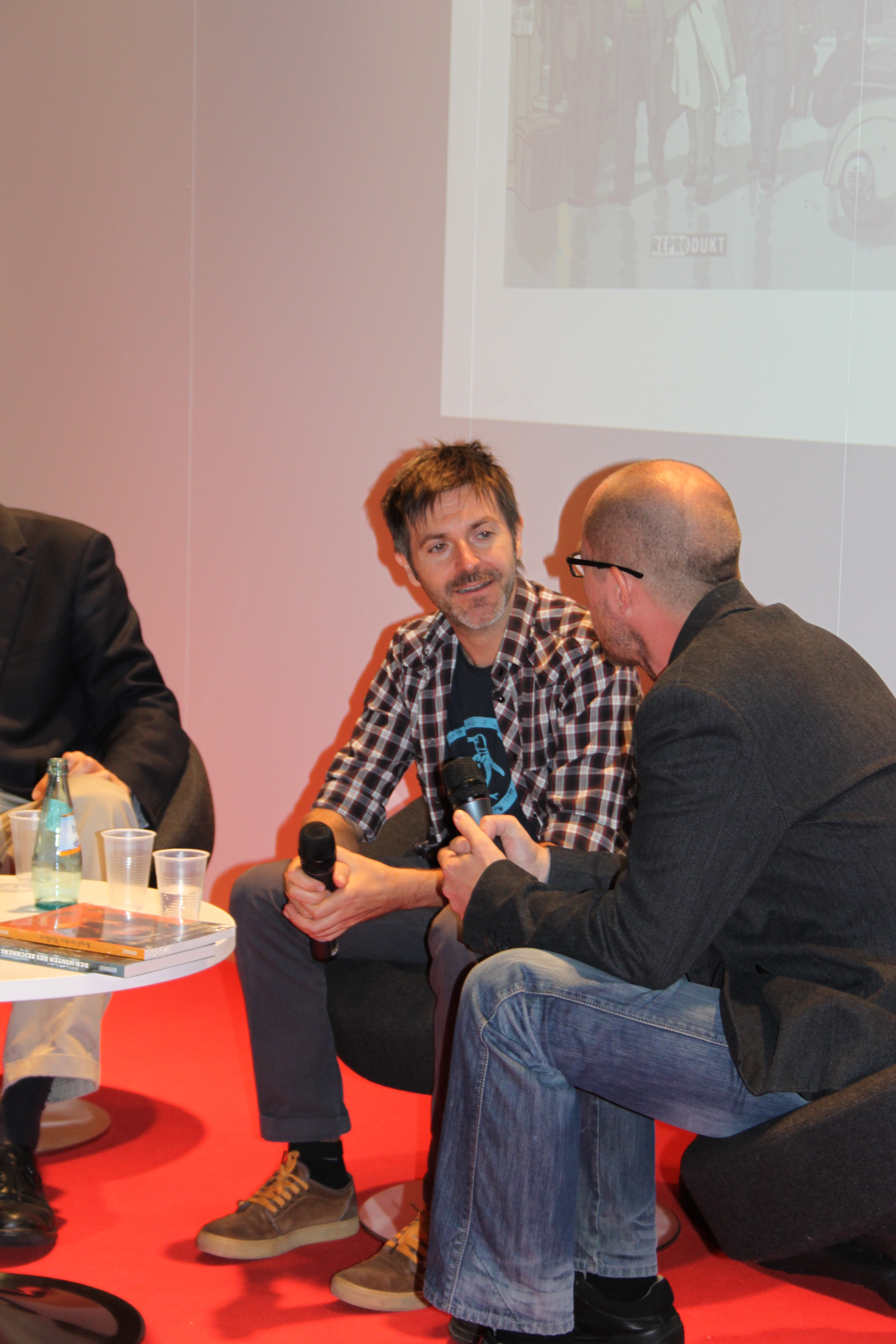 Paco Roca at the book fair in Frankfurt/Main 2013